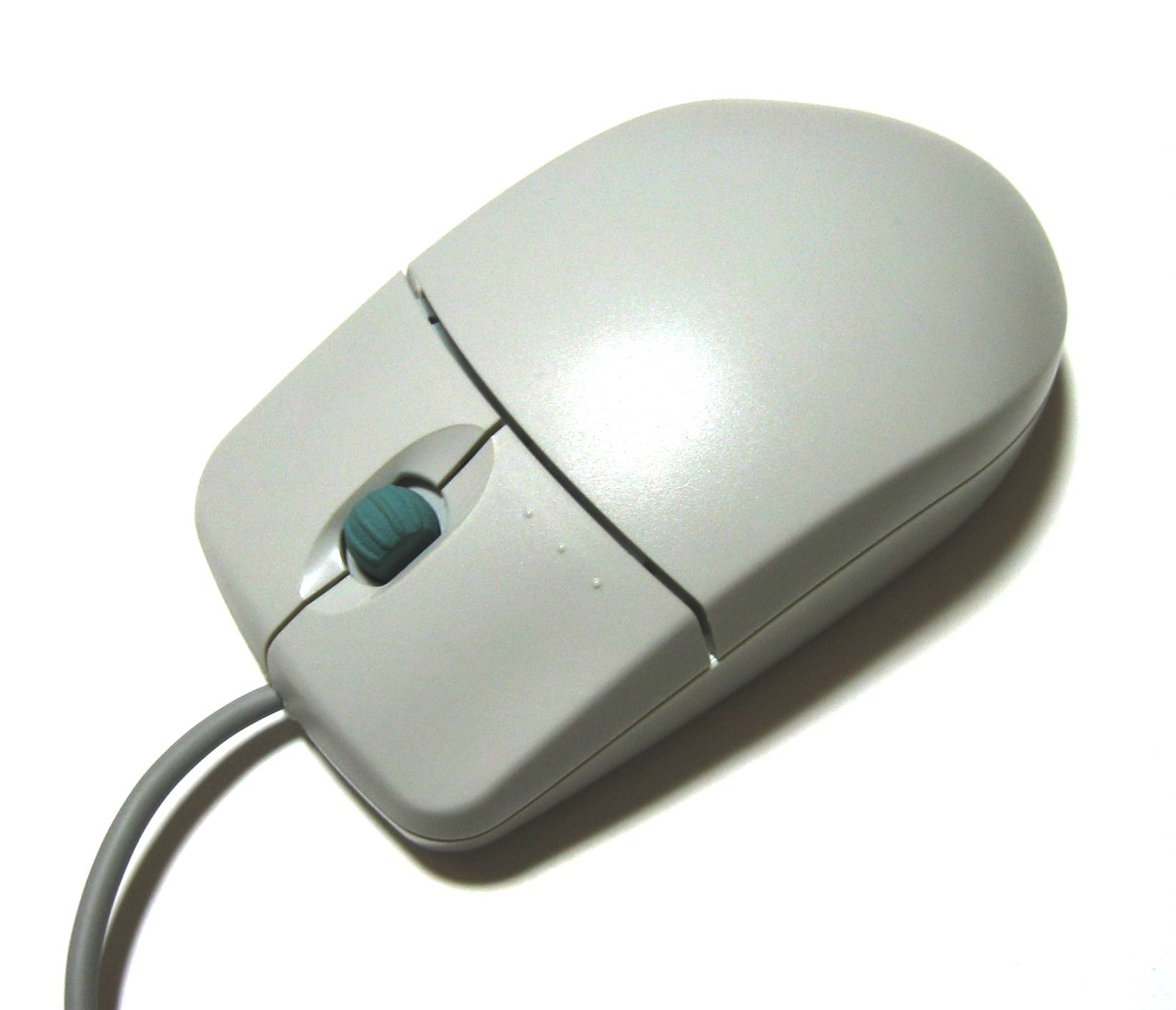 A computer mouse, a scroll switch is between buttons.